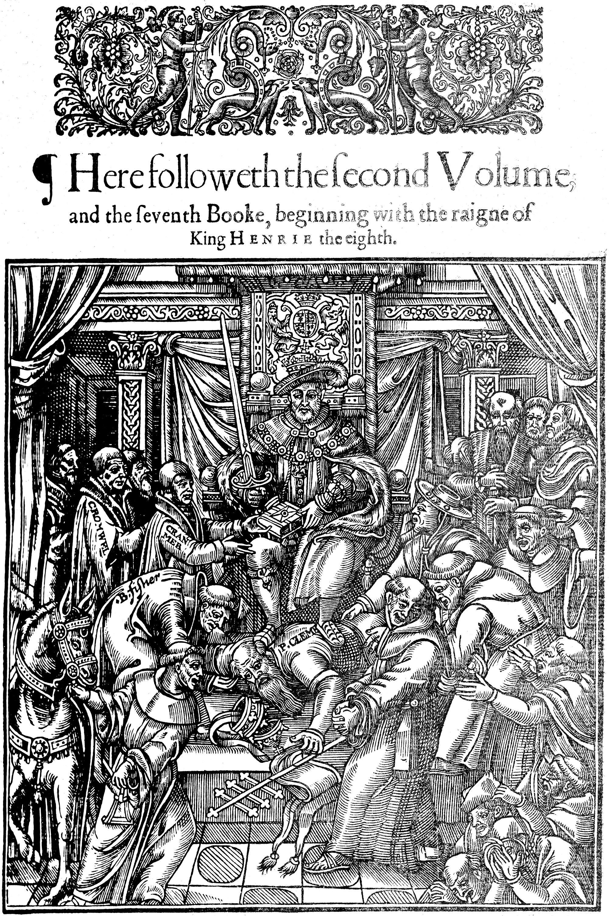 This image shows King Henry VIII of England sitting with his feet upon Pope Clement VII. To the left of the king are leading English reformers Thomas Cranmer, Archbishop of Canterbury, and Thomas Cromwell, the king’s chief minister. Kneeling beside the Pope is John Fisher, Bishop of Rochester, who refused to accept the king as the head of the English church.